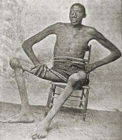 John Rogan was born in 1868 and he grew normally until the age of 13. His height was not officially recorded until his death at which point he was 8 ft 9 in tall. Due to illness he weighed only 175 pounds. He is the tallest African-American ever. He died in 1905 due to complications from his illness.